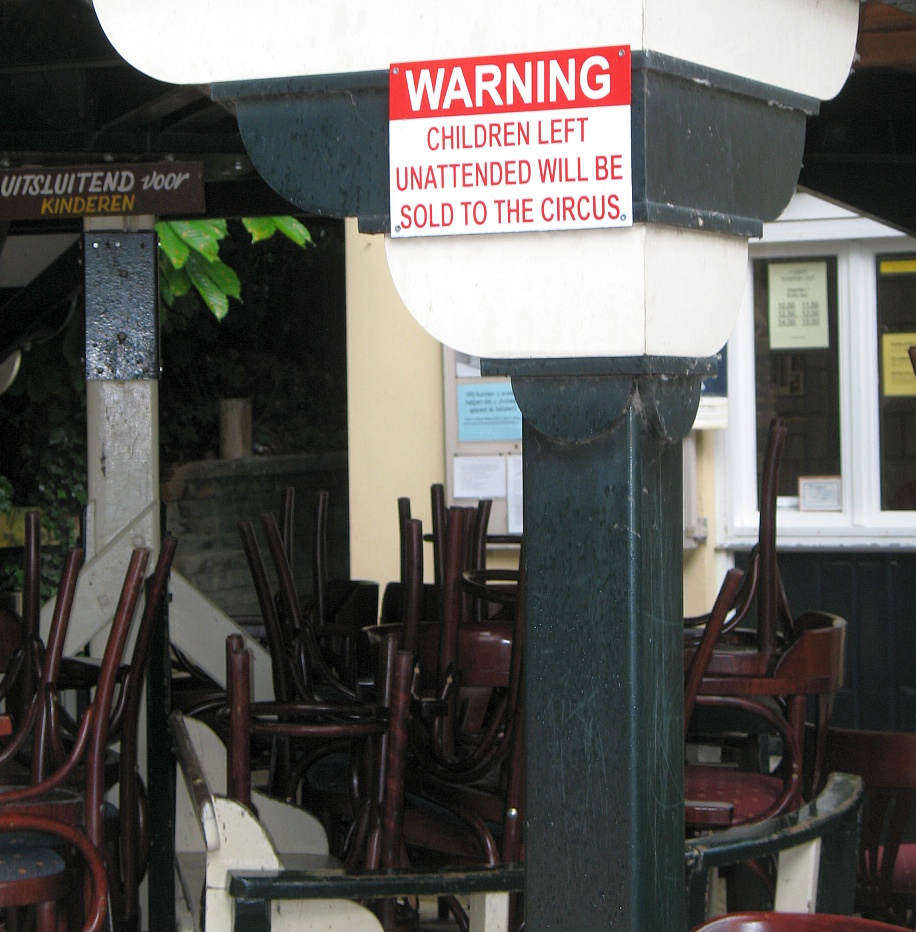 Funny warning to parents at a wooden Carousel in the south of Maastricht, The Netherlands